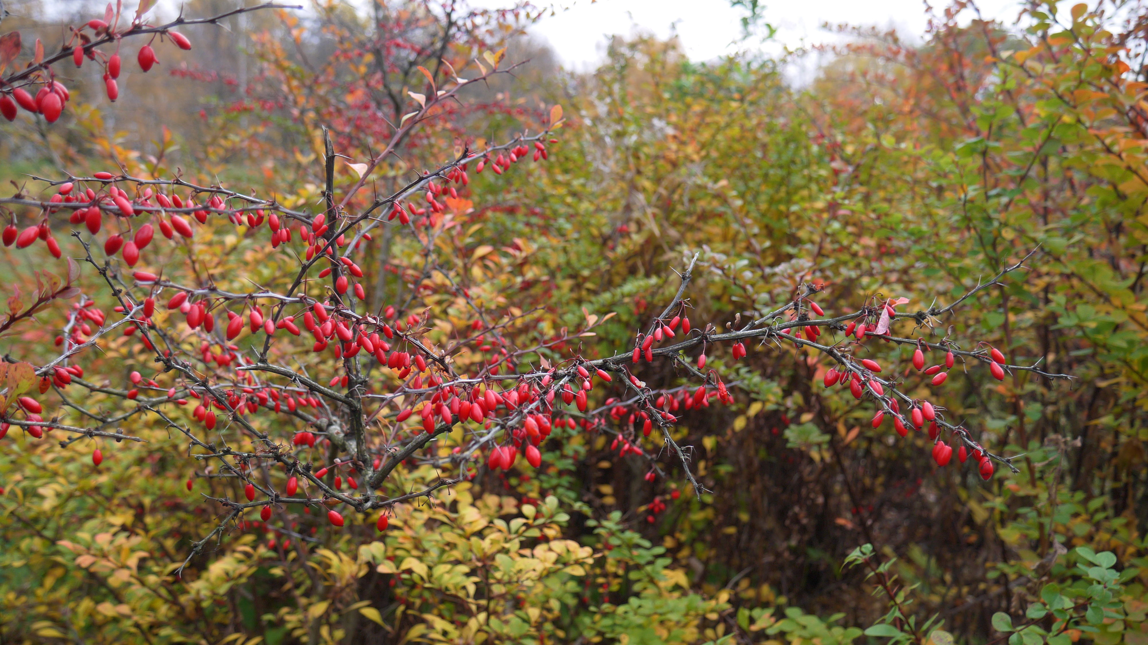 Berberis vulgaris